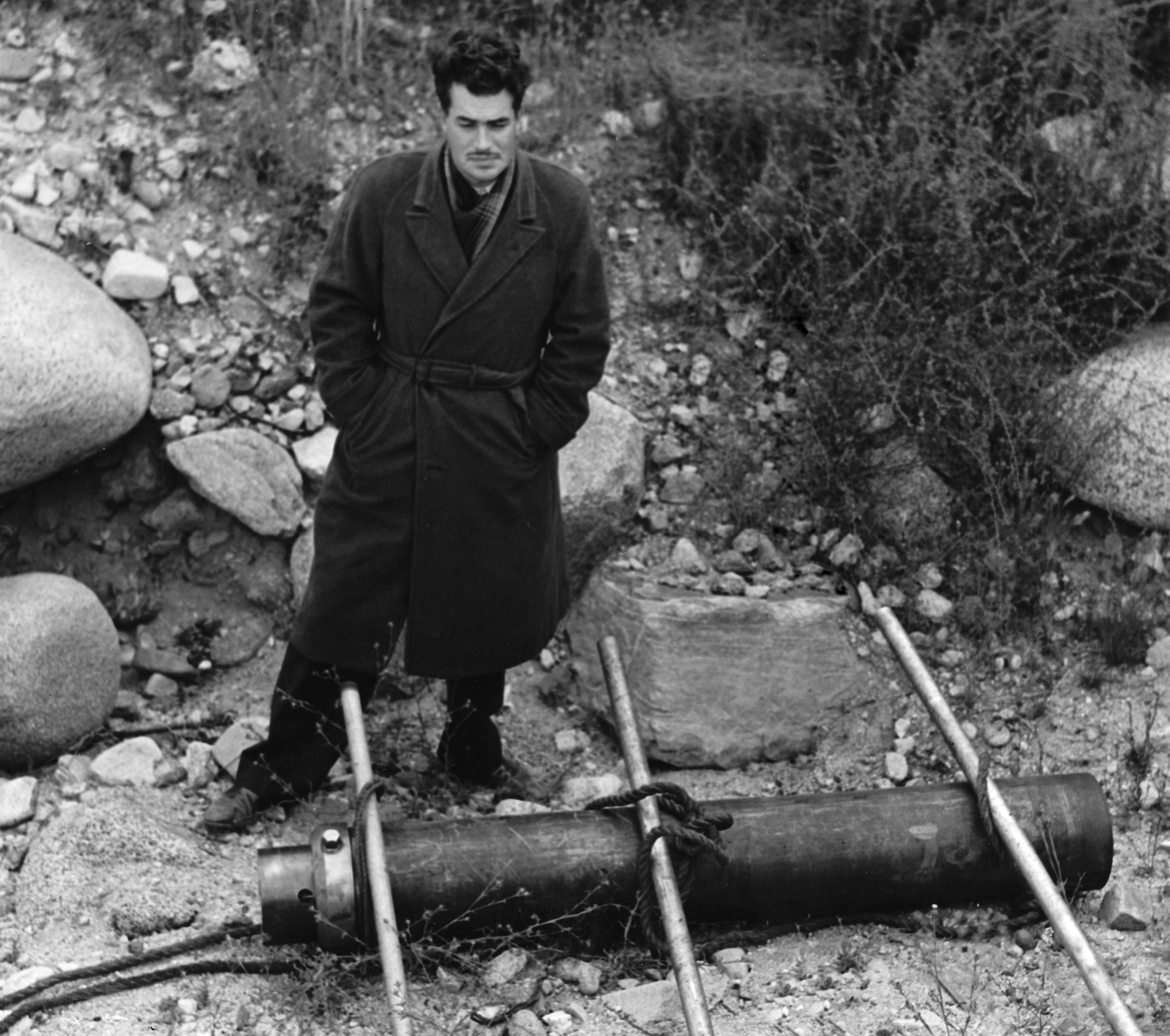 John Whiteside "Jack" Parsons standing above a Jet-Assisted Take Off canister at JPL's test site in the Arroyo Seco, Los Angeles County.